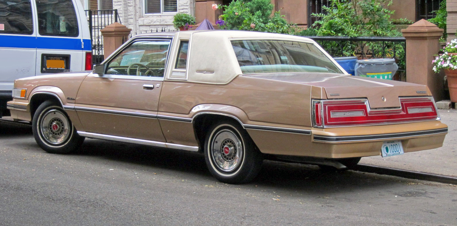 1982 Ford Thunderbird Town Landau, with the 4.2 litre V8 (the biggest engine offered in the T-bird for 1982). Assembled in Lorain, OH.